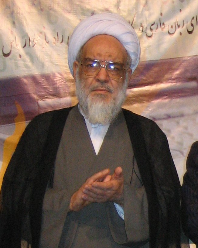 Abbas Ali Amid Zanjani, Second Workshop of Computer and Persian Language, Tehran University عباس‌ علی عمید زنجانی، دومین کارگاه پژوهشی زبان فارسی و رایانه، دانشگاه تهران